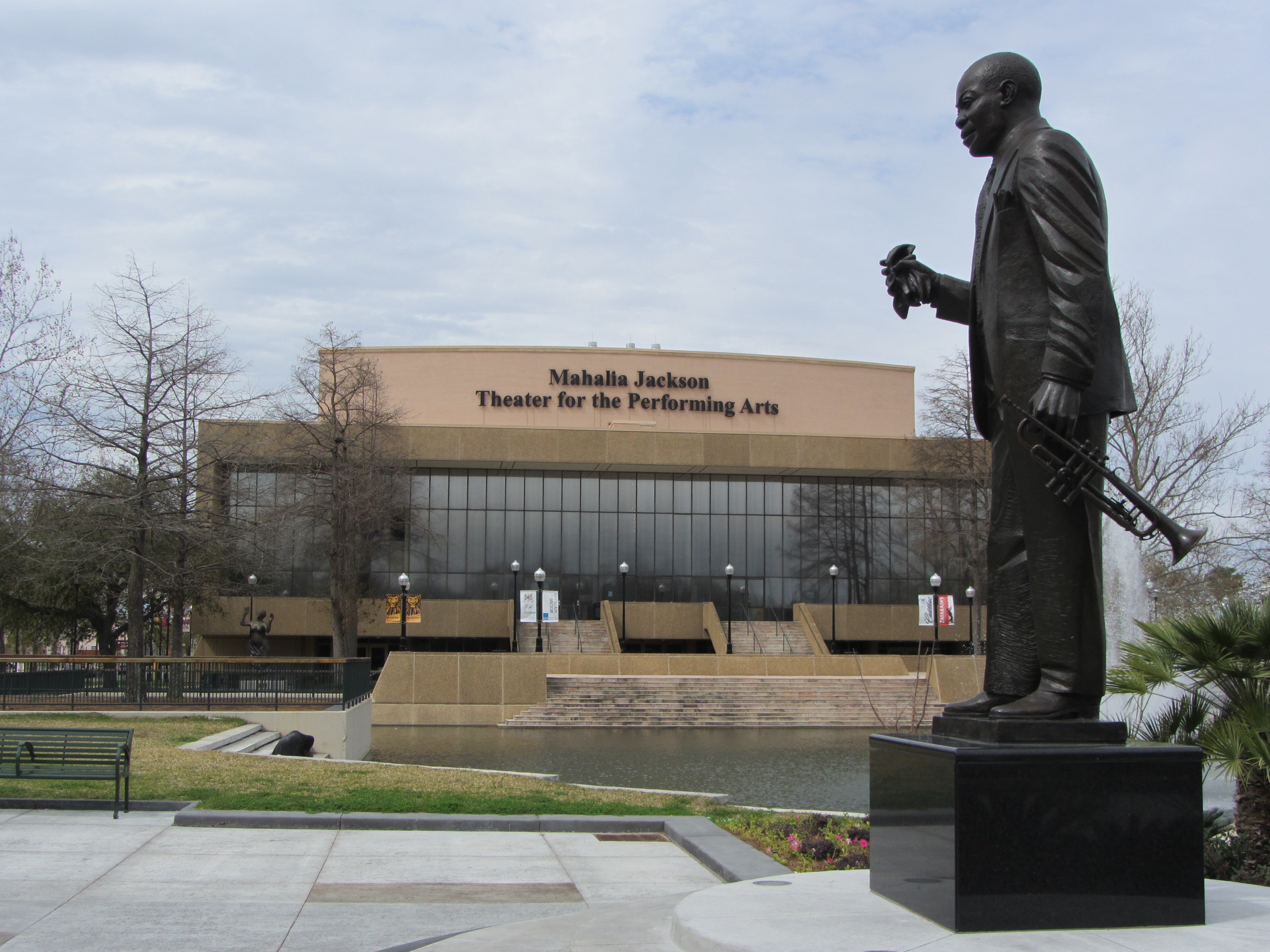 Mahalia Jackson Theater and the Louis Armstrong statue in Louis Armstrong Park, New Orleans.